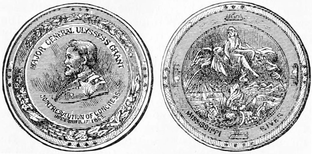 Drawing of obverse and reverse of gold medal presented by the U.S. Congress to General Ulysses S. Grant, for gallantry and good conduct of himself and his troops in battles of the rebellion